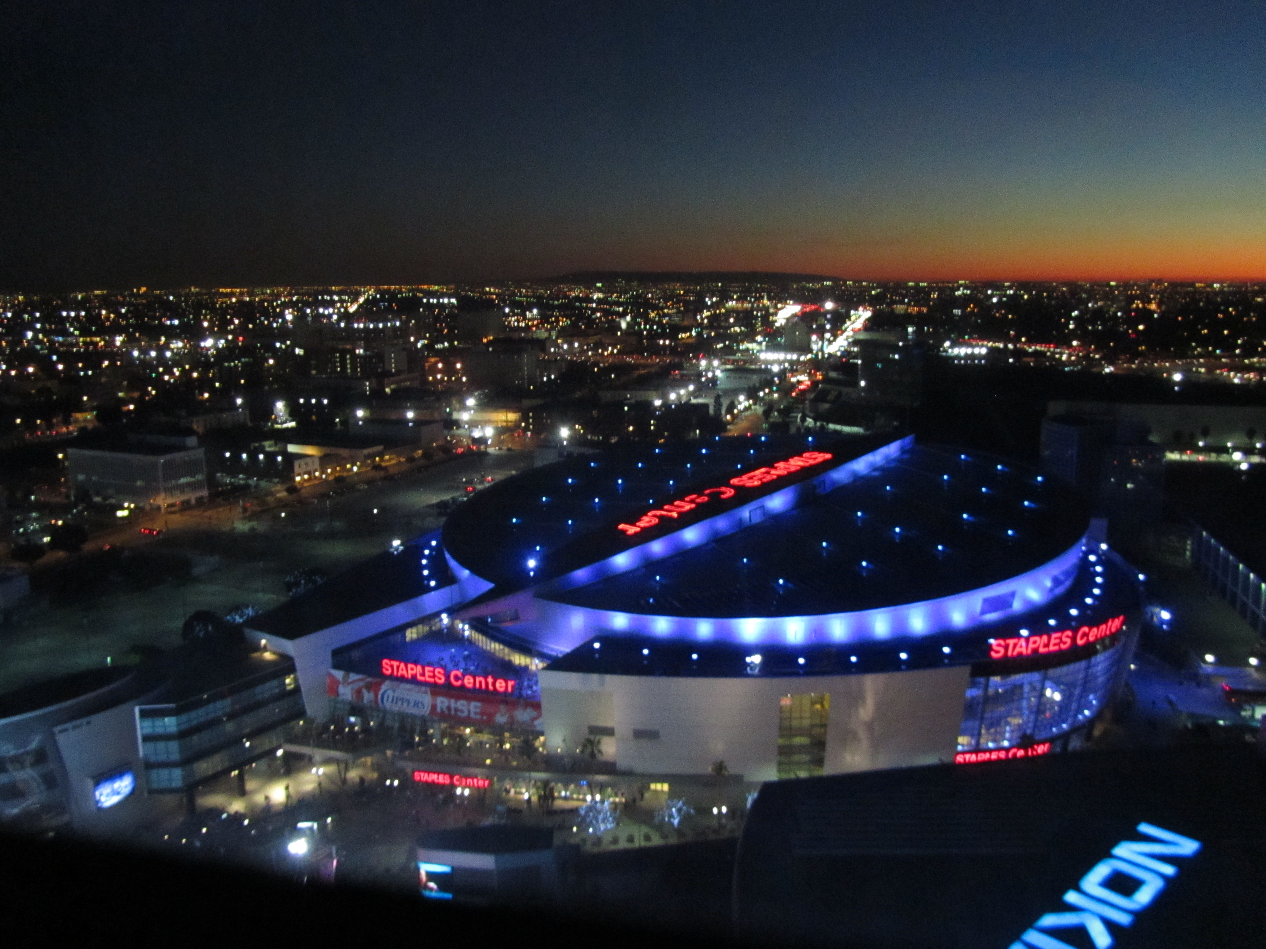 Staples Center from the roof of the Ritz Carlton hotel